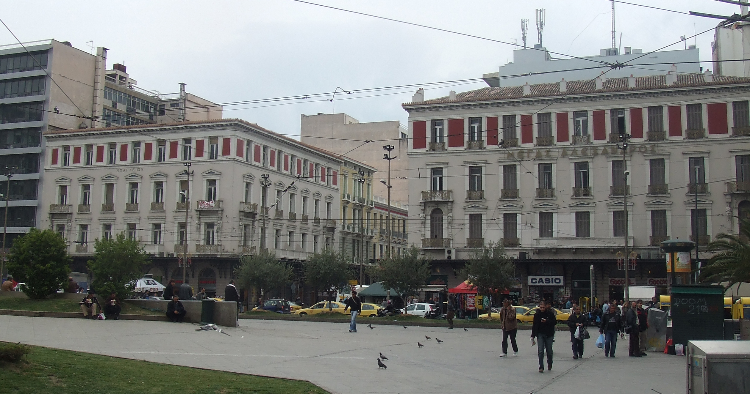 The former hotels "Bakeion" and "Megas Alexandros" on the Omonia Square in Athens, both designed by Ernst Ziller